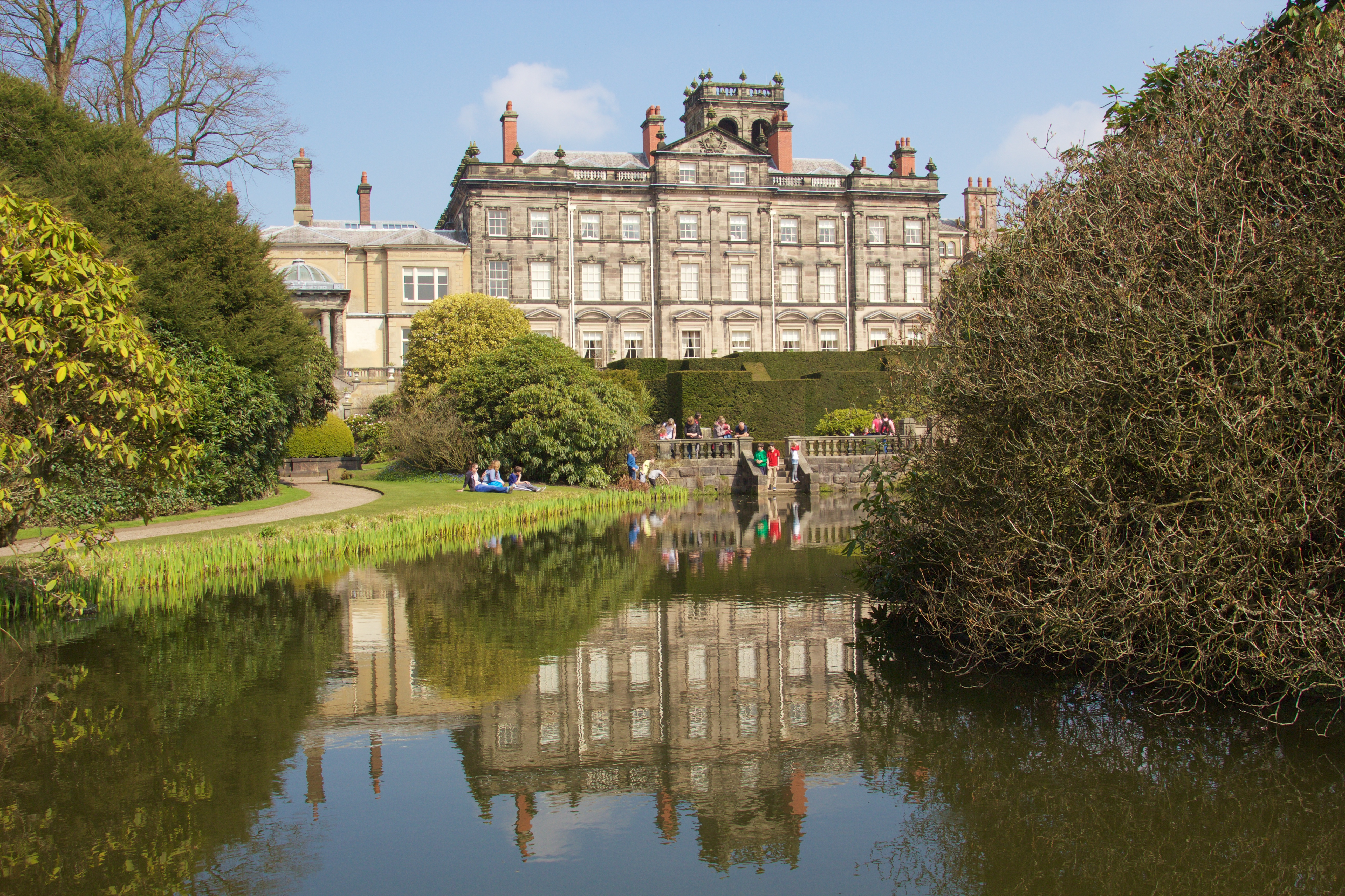 Biddulph Grange house and gardens.